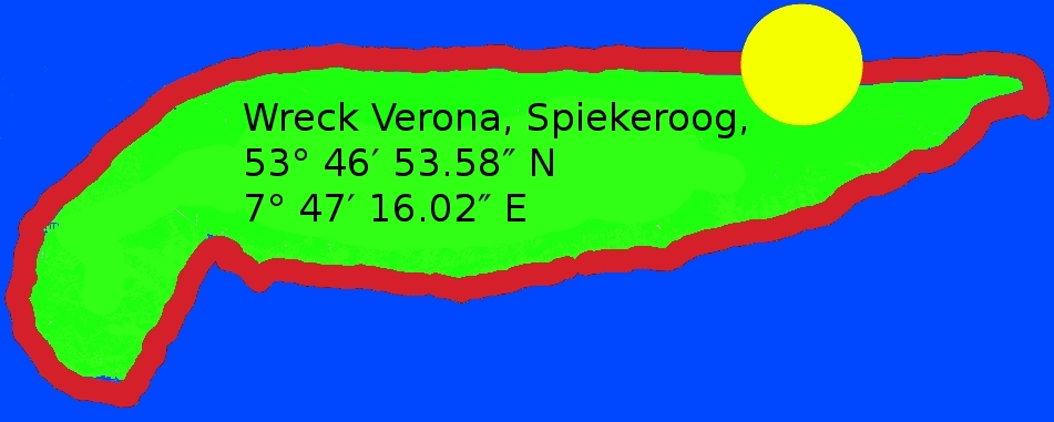 Wrack Verona